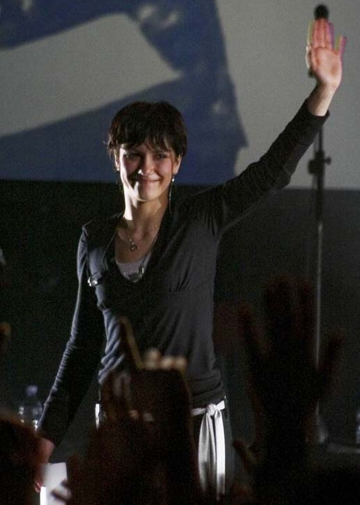 Elisa Toffoli